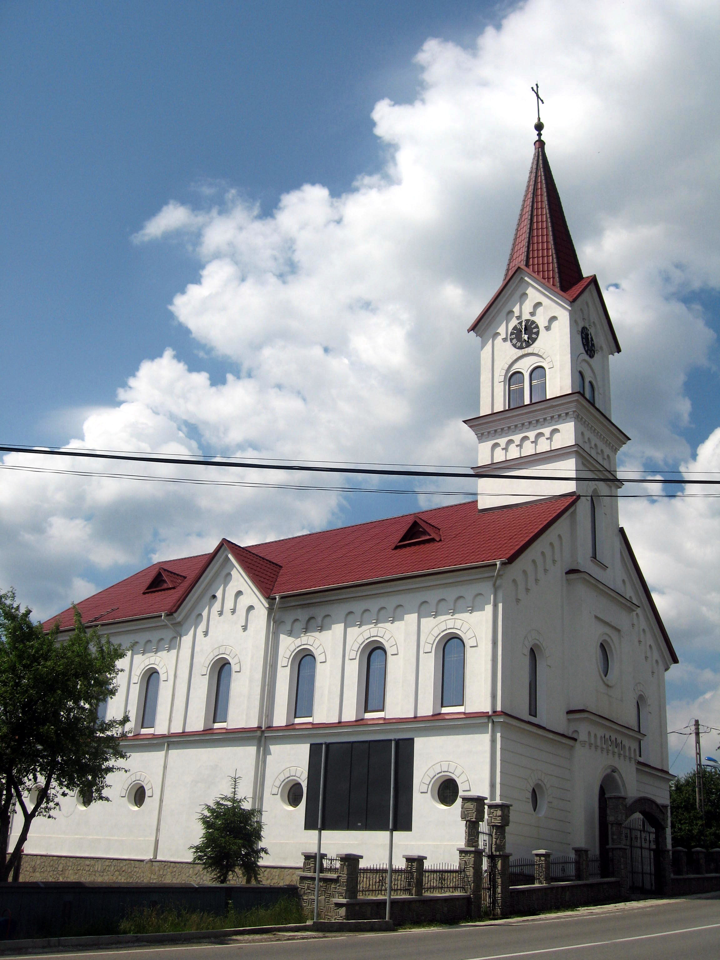 Biserica Adormirea Maicii Domnului din Ilişeşti, Suceava County, Romania